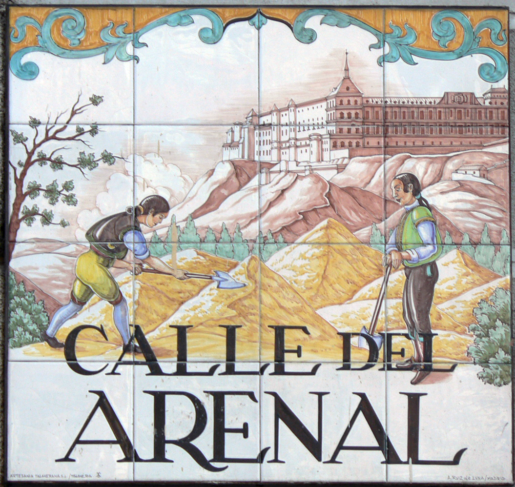 Sign of Calle del Arenal (street, Centro district) in Madrid (Spain).